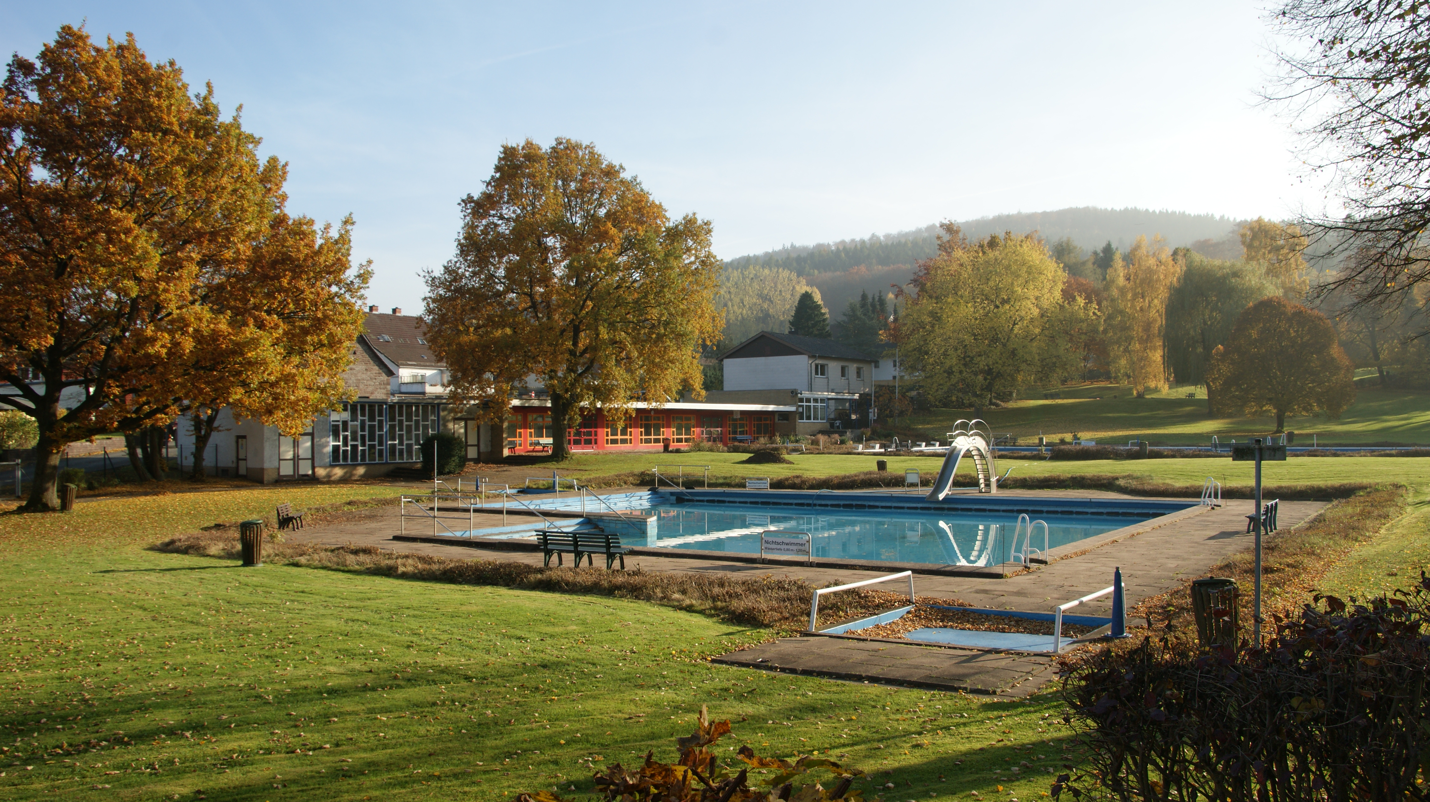 Public open air pools in Eschershausen